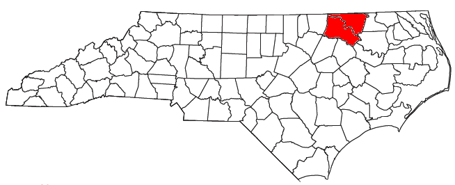 Locator map of the Roanoke Rapids Micropolitan Statistical Area in the northeastern part of the U.S. state of North Carolina.